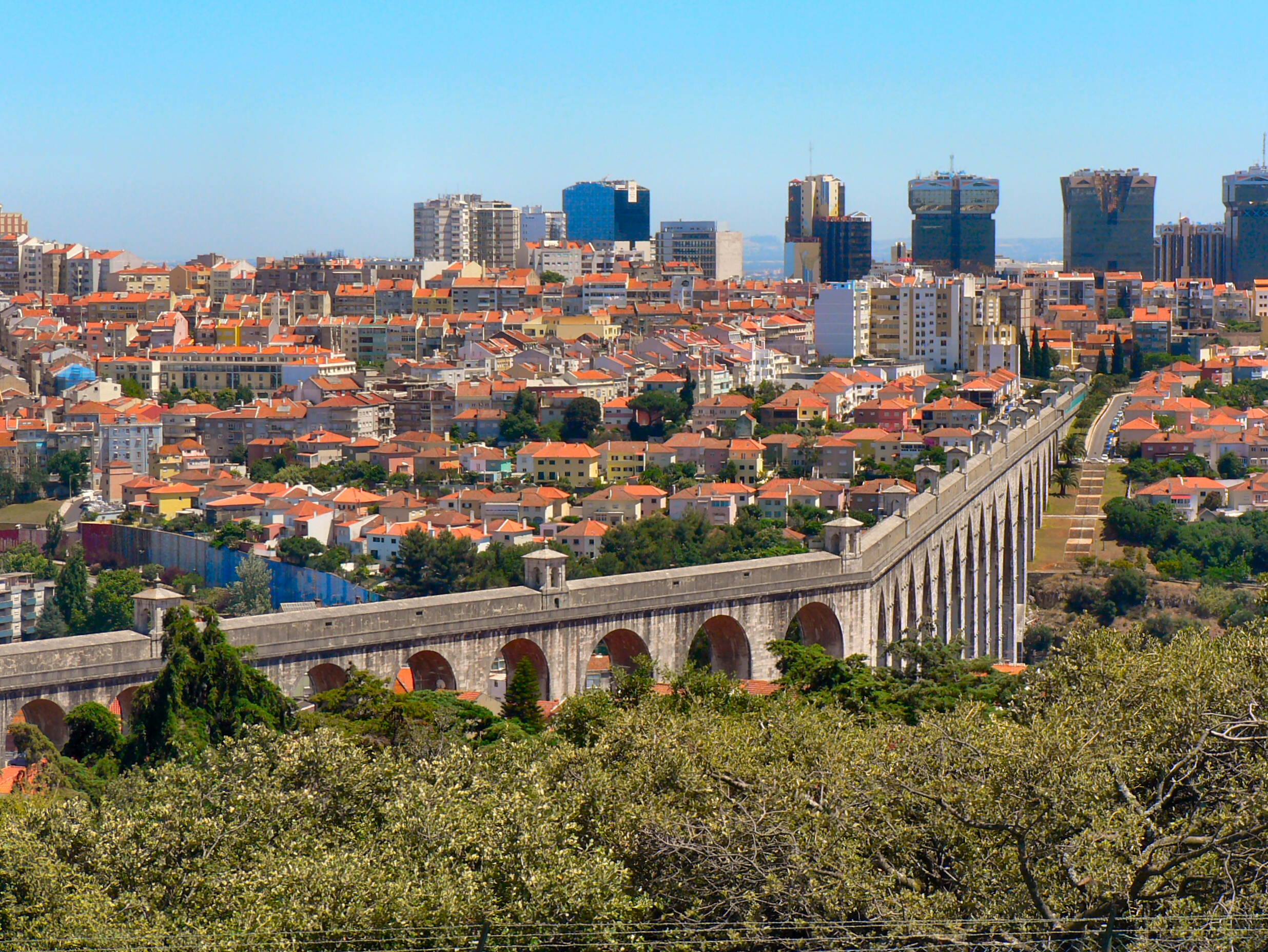 Águas Livres Aqueduct, in Lisbon, Portugal.